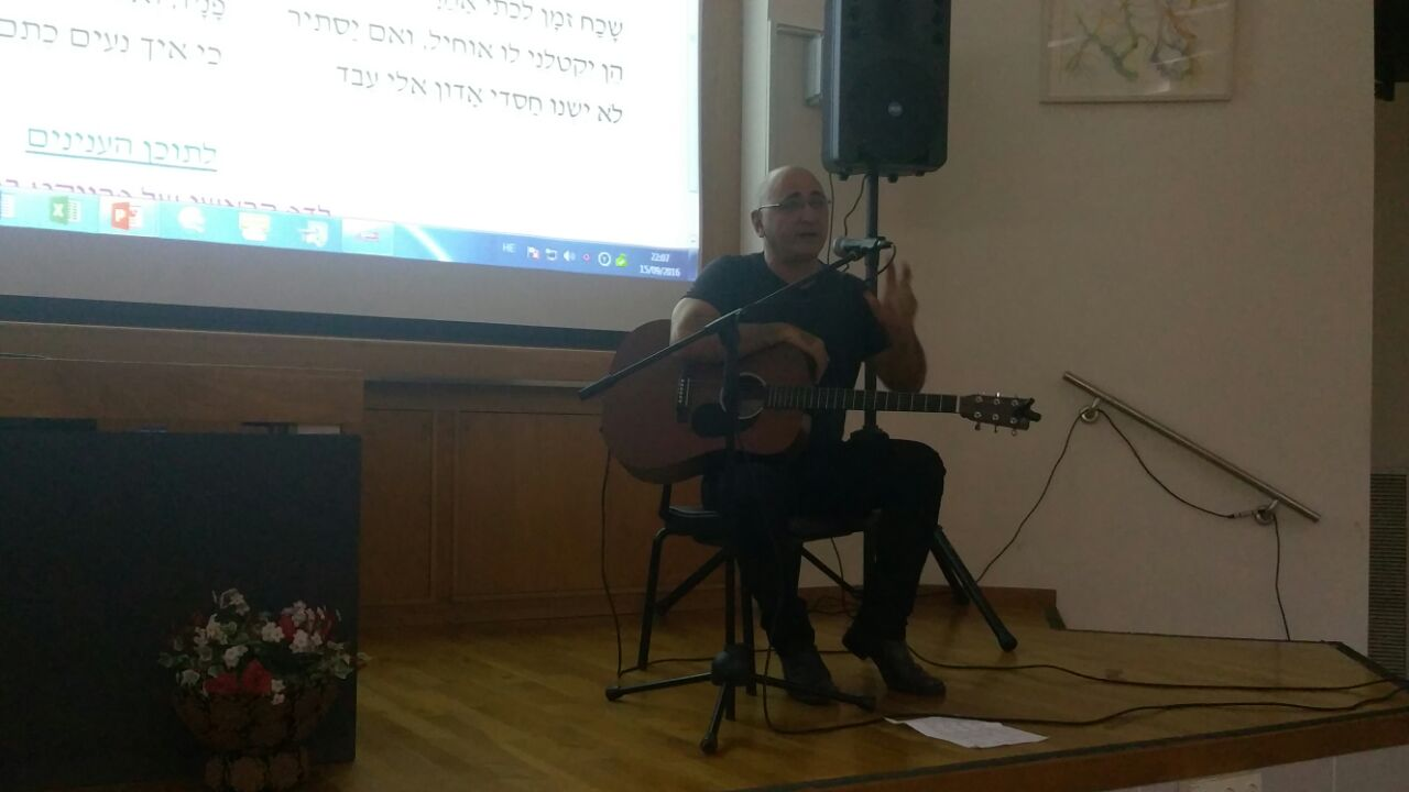 Avi Belleli sings songs by Eben Ezra in a Project Ben-Yehuda evening dedicated to Hebrew Medieval writing. Tel Aviv University, 2016.